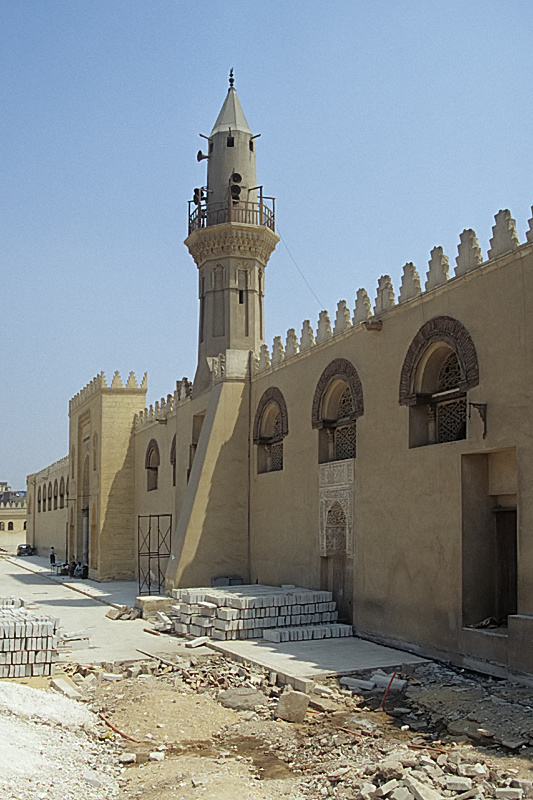 Façade of the Mosque of Amr ibn el-As, Old Cairo, Egypt